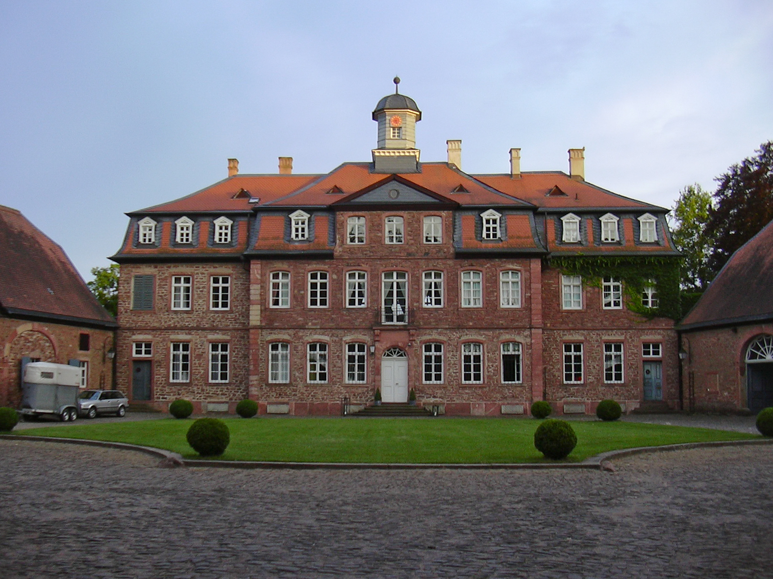 Emmerichshofen Castle, near Kahl/Main, Bavaria/Germany